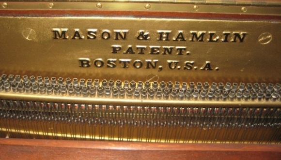 Detail of 1894 Mason and Hamlin upright piano, showing the "screw stringer" apparatus.